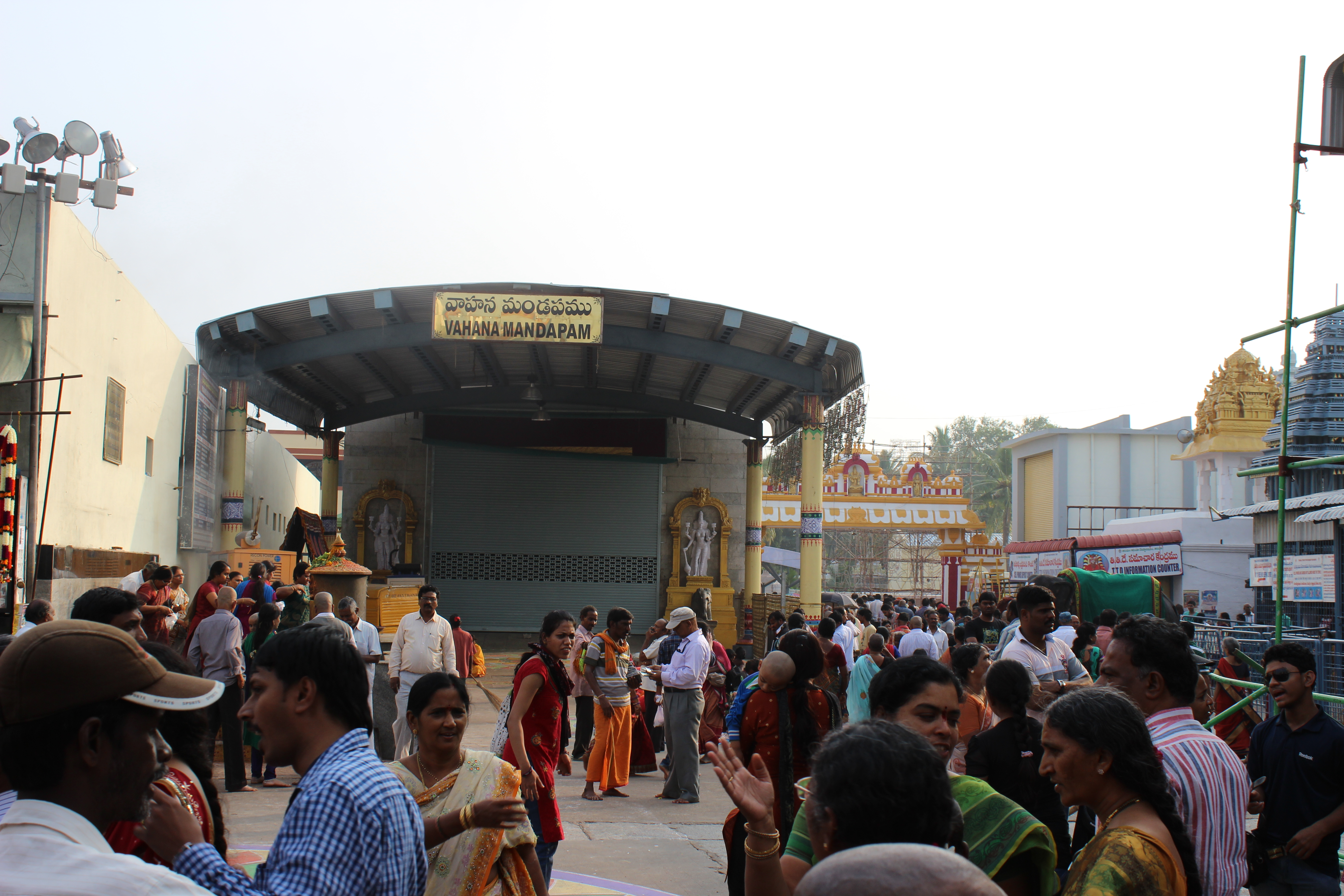 Thiruchanur